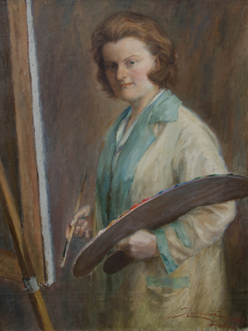 A painting done by Zuzka Medved'ova - Self-portrait with palette (oil on canvas). Inventory number 33.